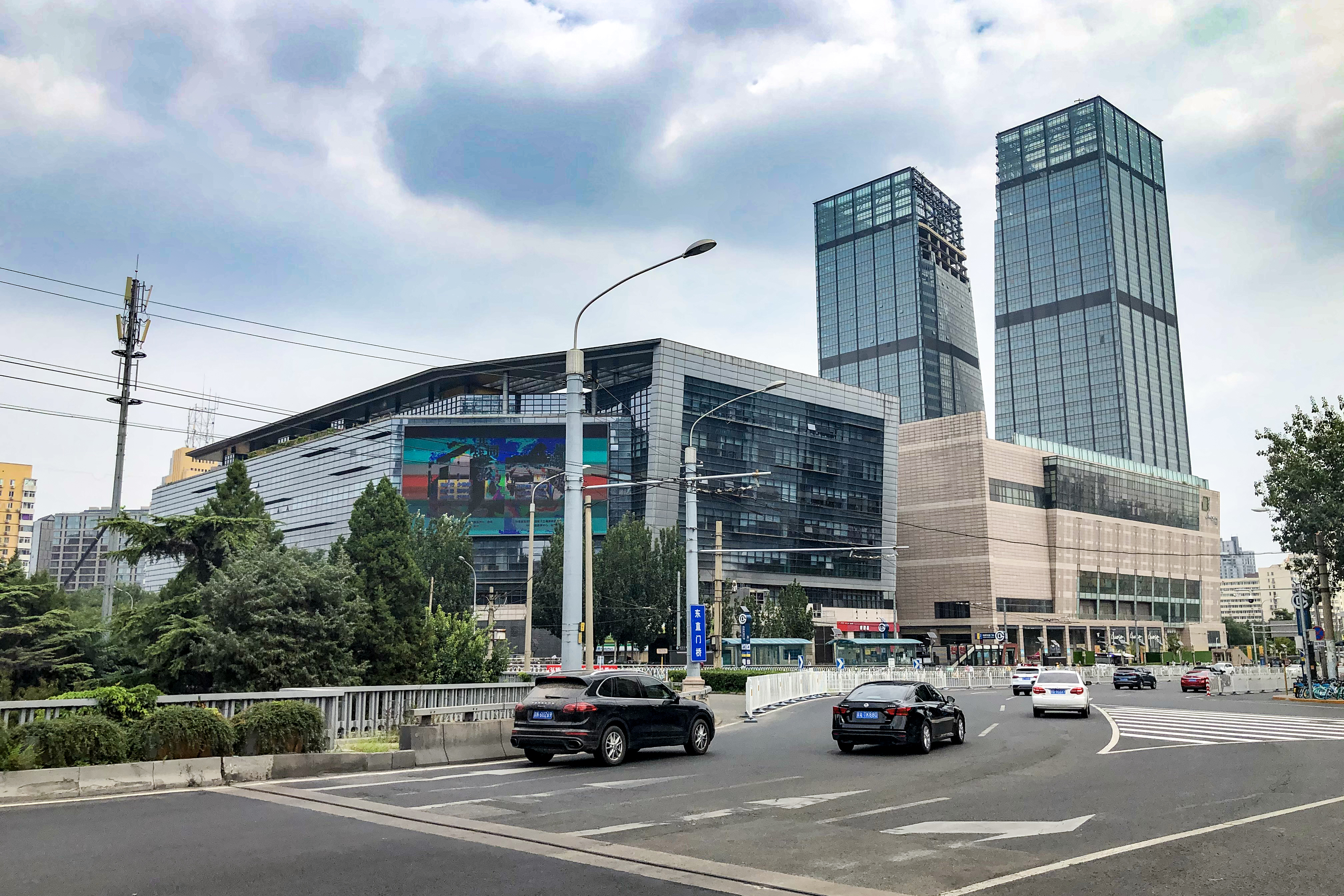 12 years since the Olympics, the auxiliary buildings are still under construction!